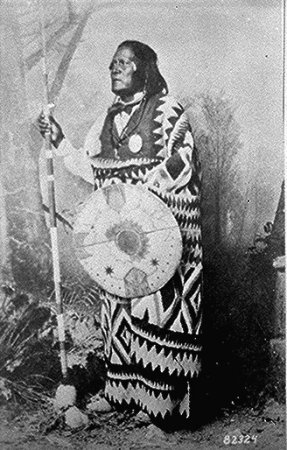 portrait (photo) du chef apache mescalero San Juan